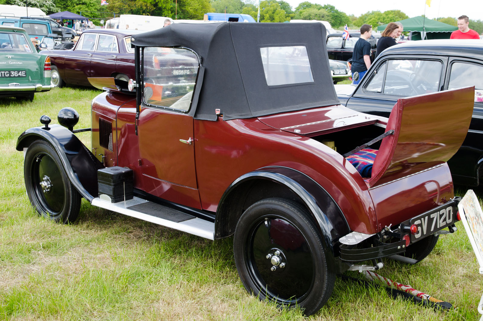 Singer Junior open 2-seater with dickey 1930(DVLA) manufactured 1930, 848ccHeskin Hall Steam Fair 02/06/2013